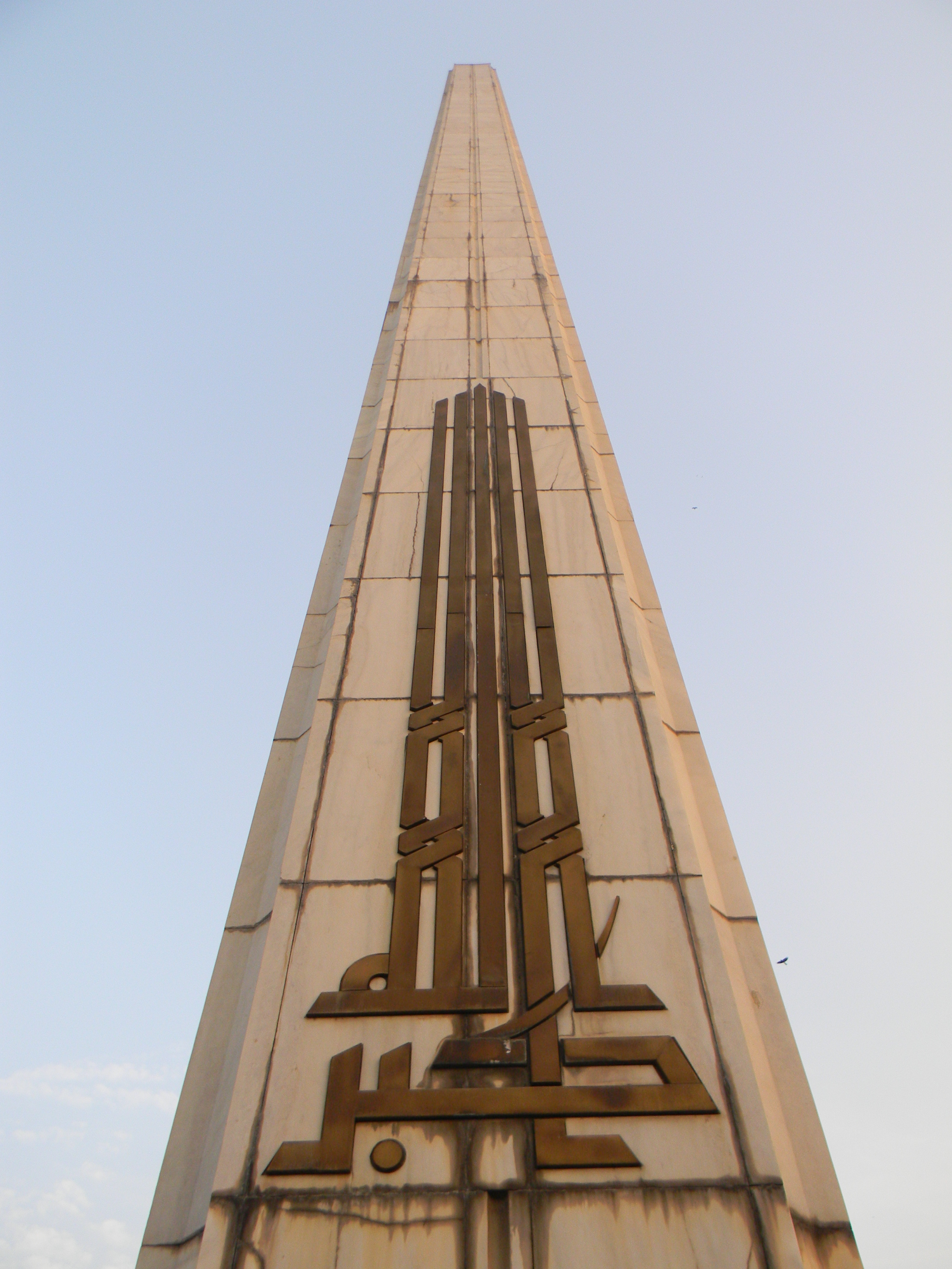 Islamic Summit Minar Lahore